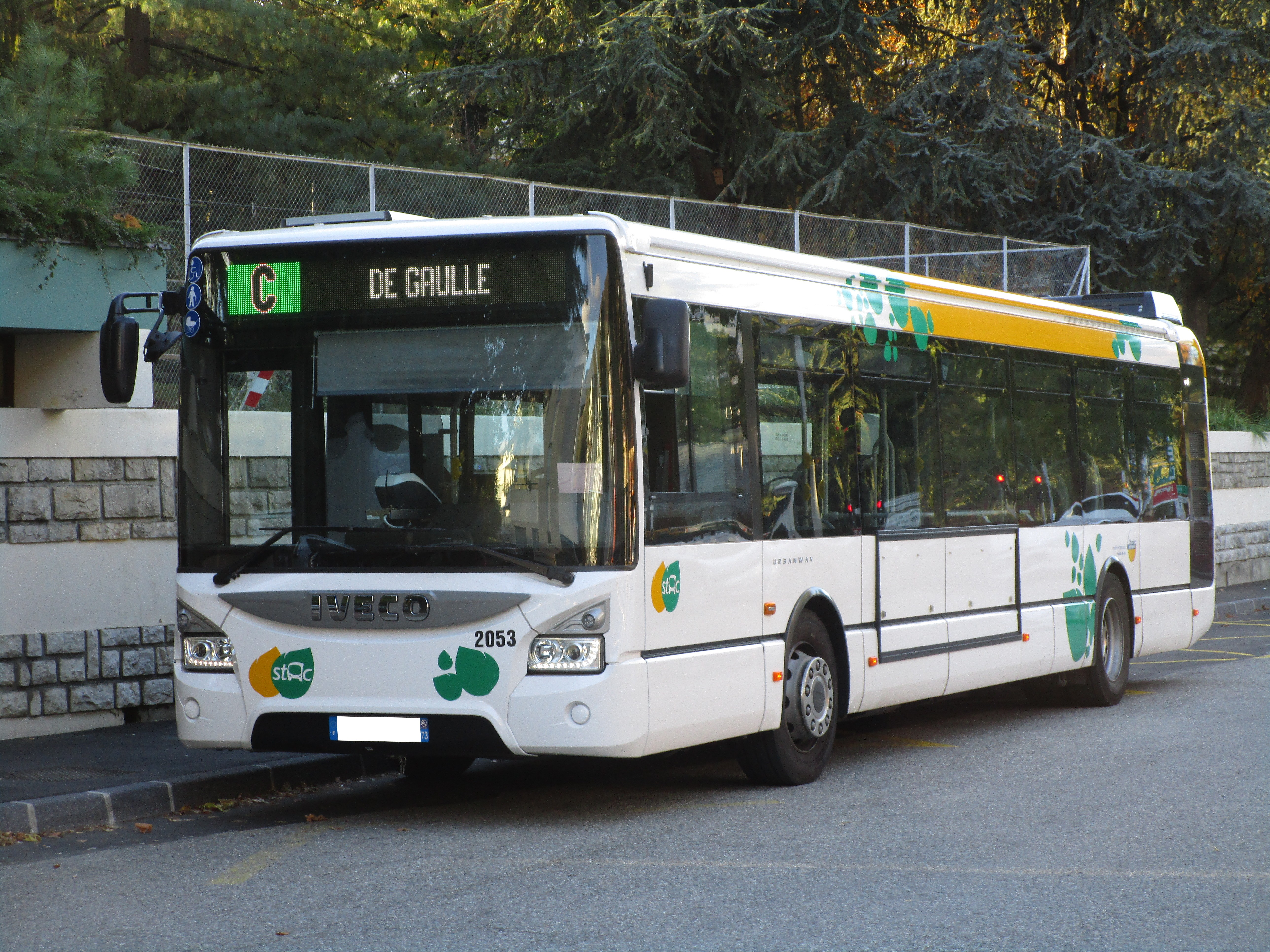 The bus Iveco Urbanway 12 n°2053 of the STAC at the call Challes Centre in Challes-les-Eaux on October 21, 2016.